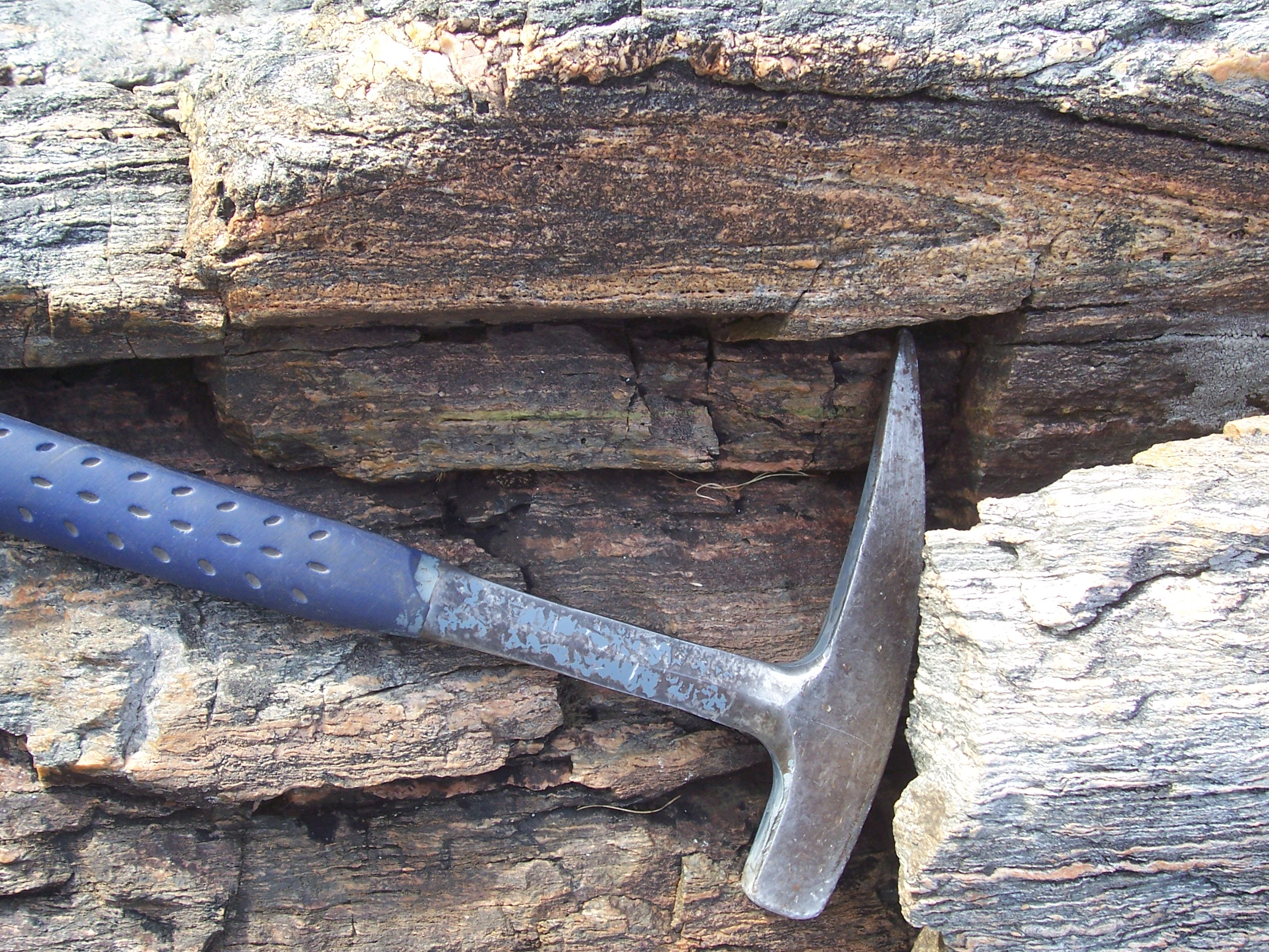 Isoclinal folds in a platy orthogneiss, Midøy, Møre og Romsdal, Norway